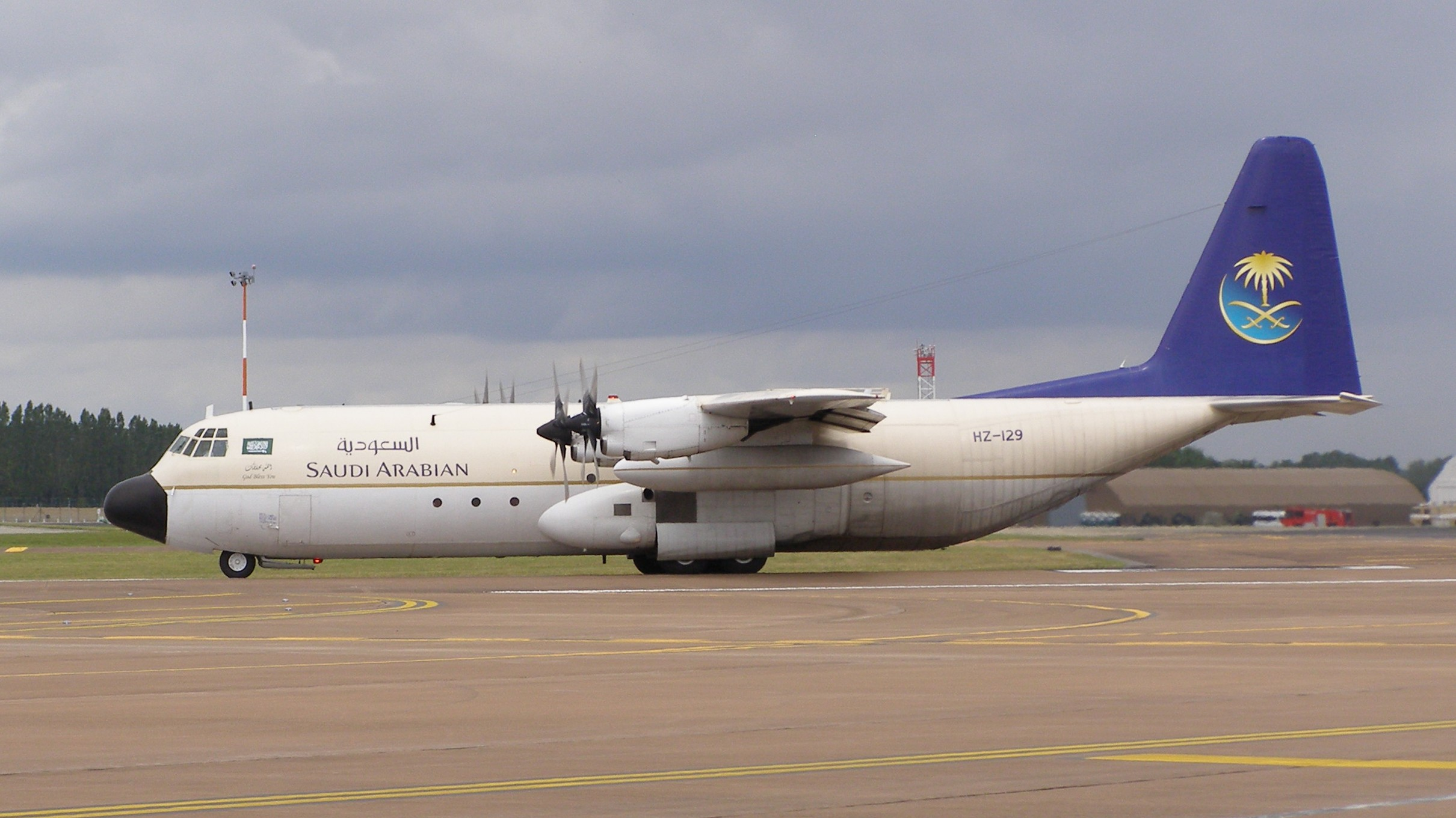 A Royal Saudi Air Force Lockheed Hercules, in Saudi Arabian Airlines marking and registered HZ-129, waits to departure from RAF Fairford, England following the Royal International Air Tattoo in 2011